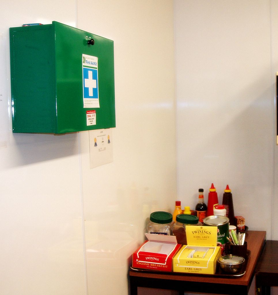 First Aid kit on wall.